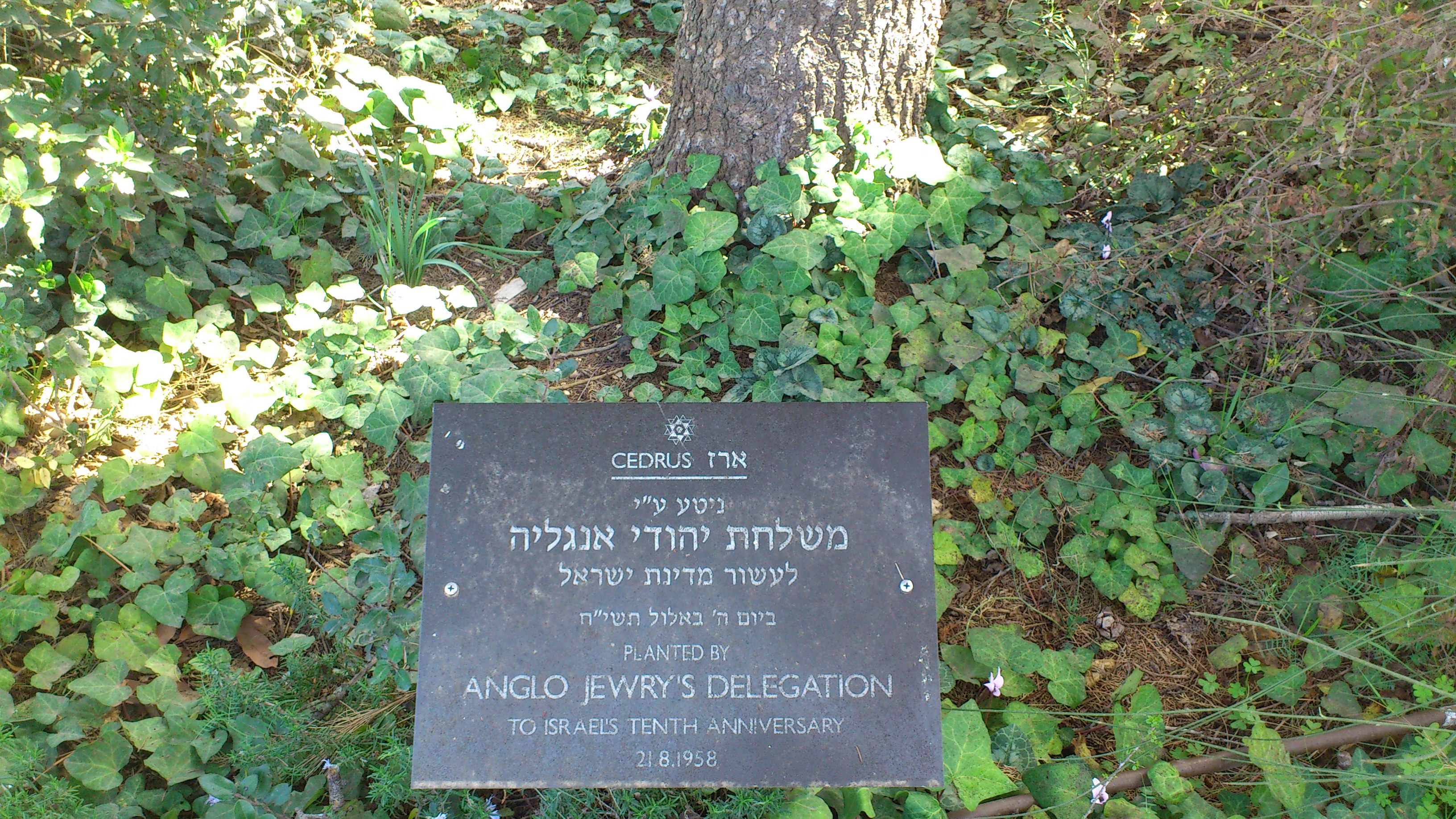 Mount Herzl - Garden of the Nations